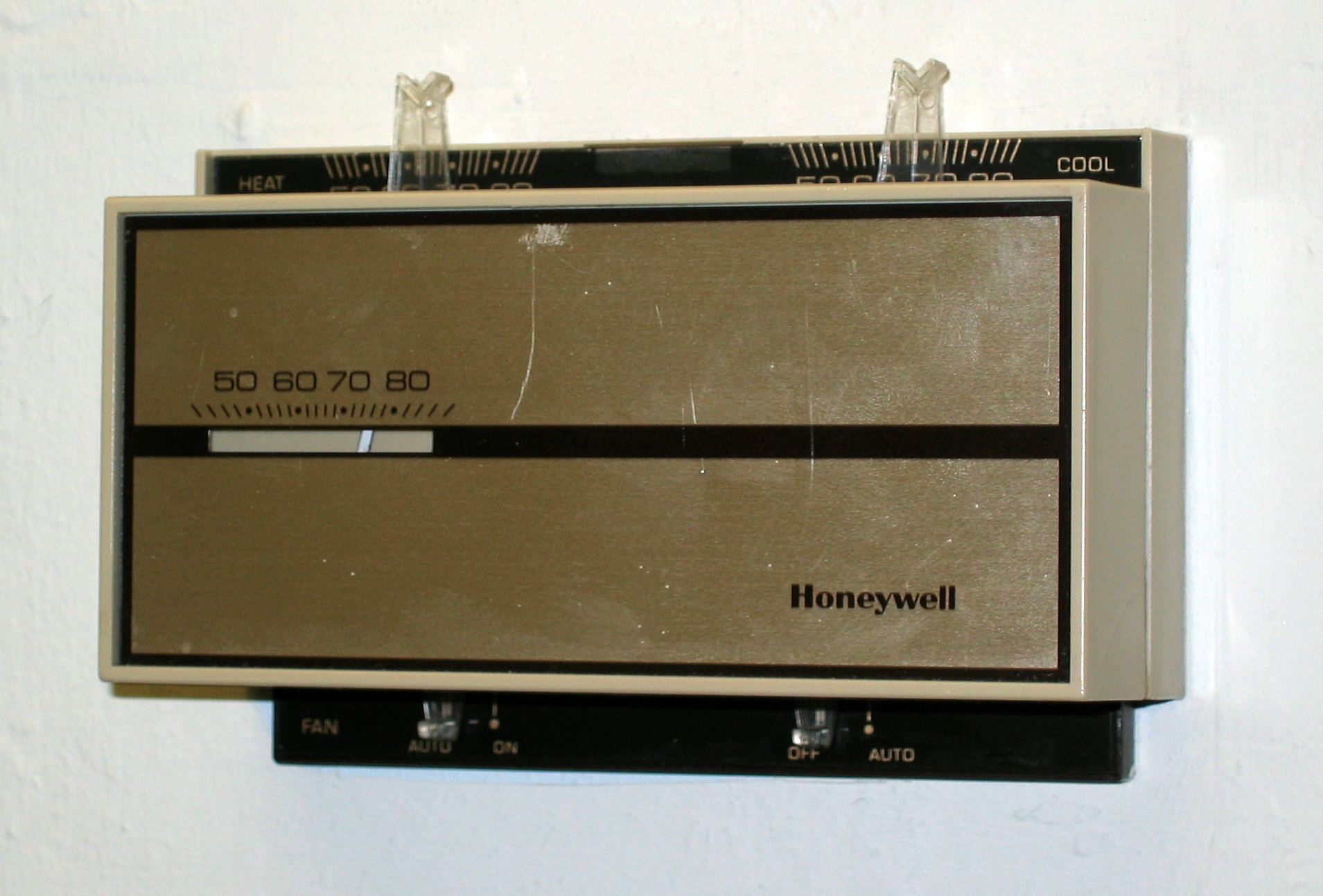 Thermostat for controlling the temperature in an office building. It is made by Honeywell and uses a bimetallic strip. Photo by Dante Alighieri